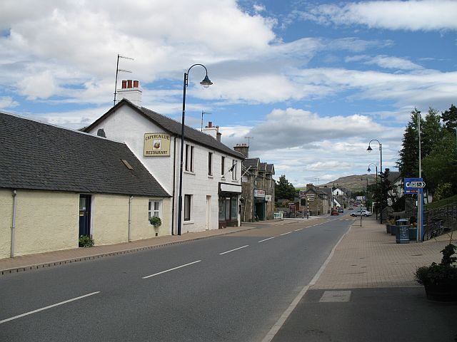 Newtonmore